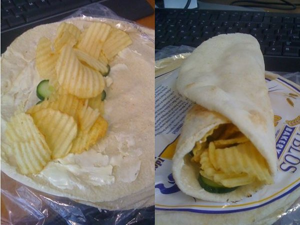 A wrap made with cheese, cucumber, and potato chips